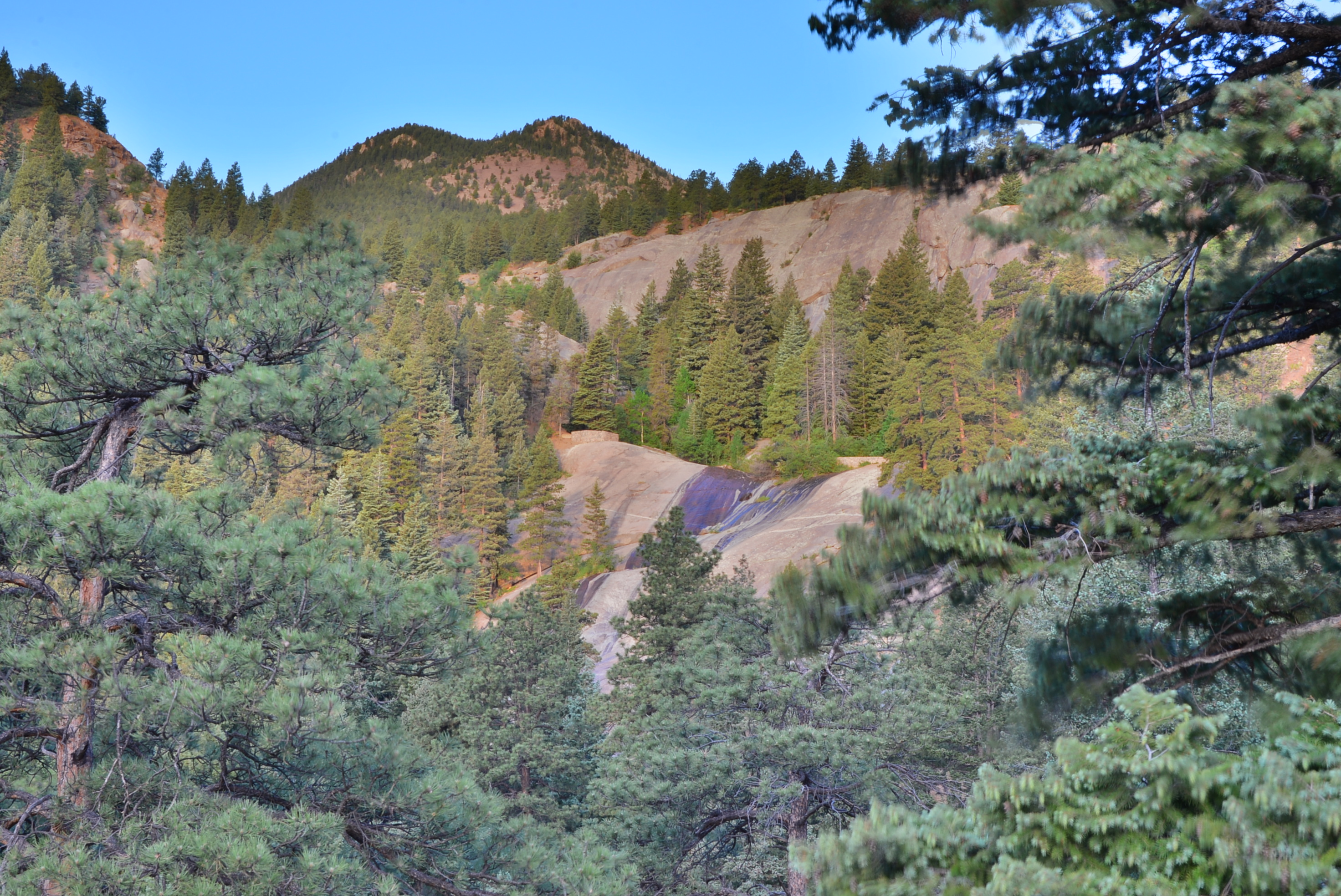 Silver Cascade Falls, North Cheyenne Canyon Park, Colorado Springs, CO, at sunrise, June 2013